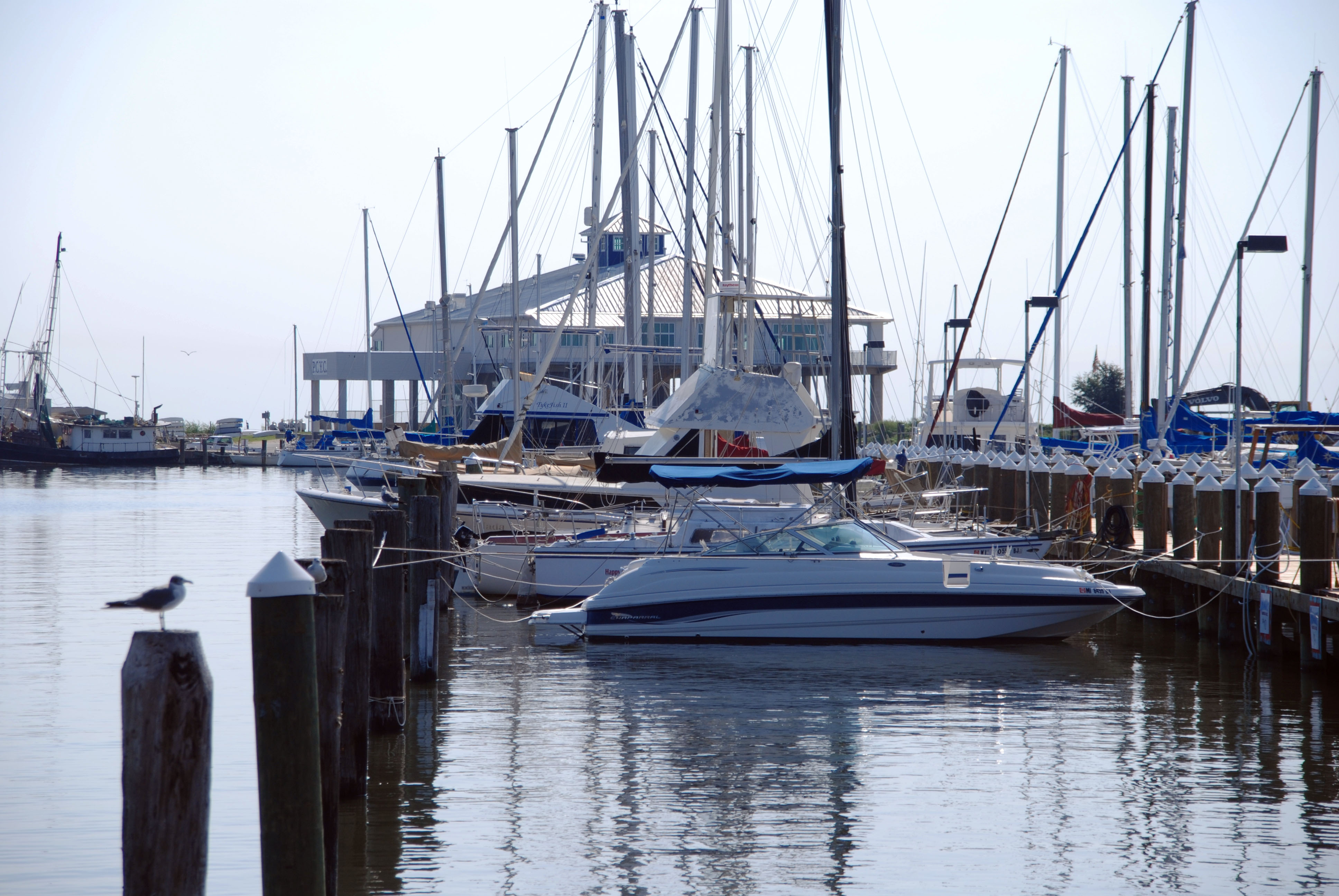 Pass Christian, MS, August 14, 2008 -- Boats are docked at the harbor once again. Jennifer Smits/FEMA.